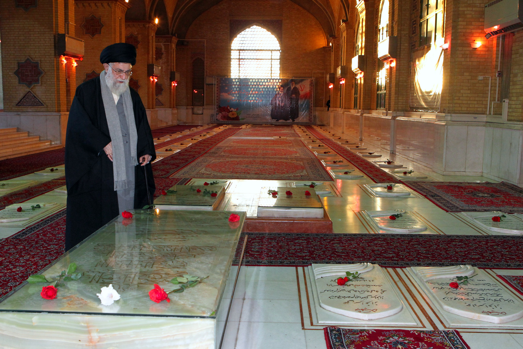 Ali Khamenei On the grave of mohammad Beheshti in Tomb of the Martyrs of the Hafte Tir bombing in Behesht-e Zahra